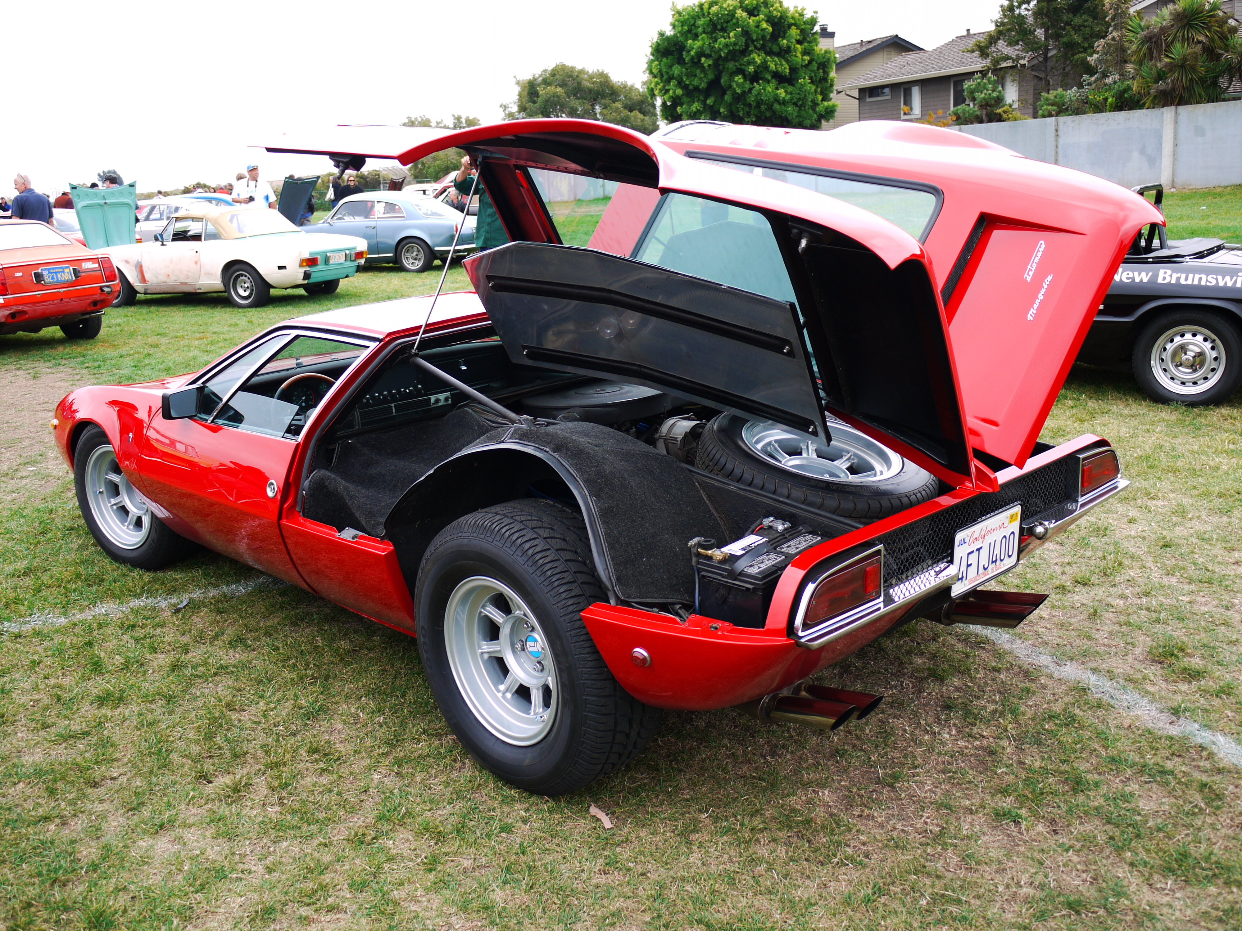 Detomaso Mangusta at 2009 Alameda All Italian Car & Motorcycle Show